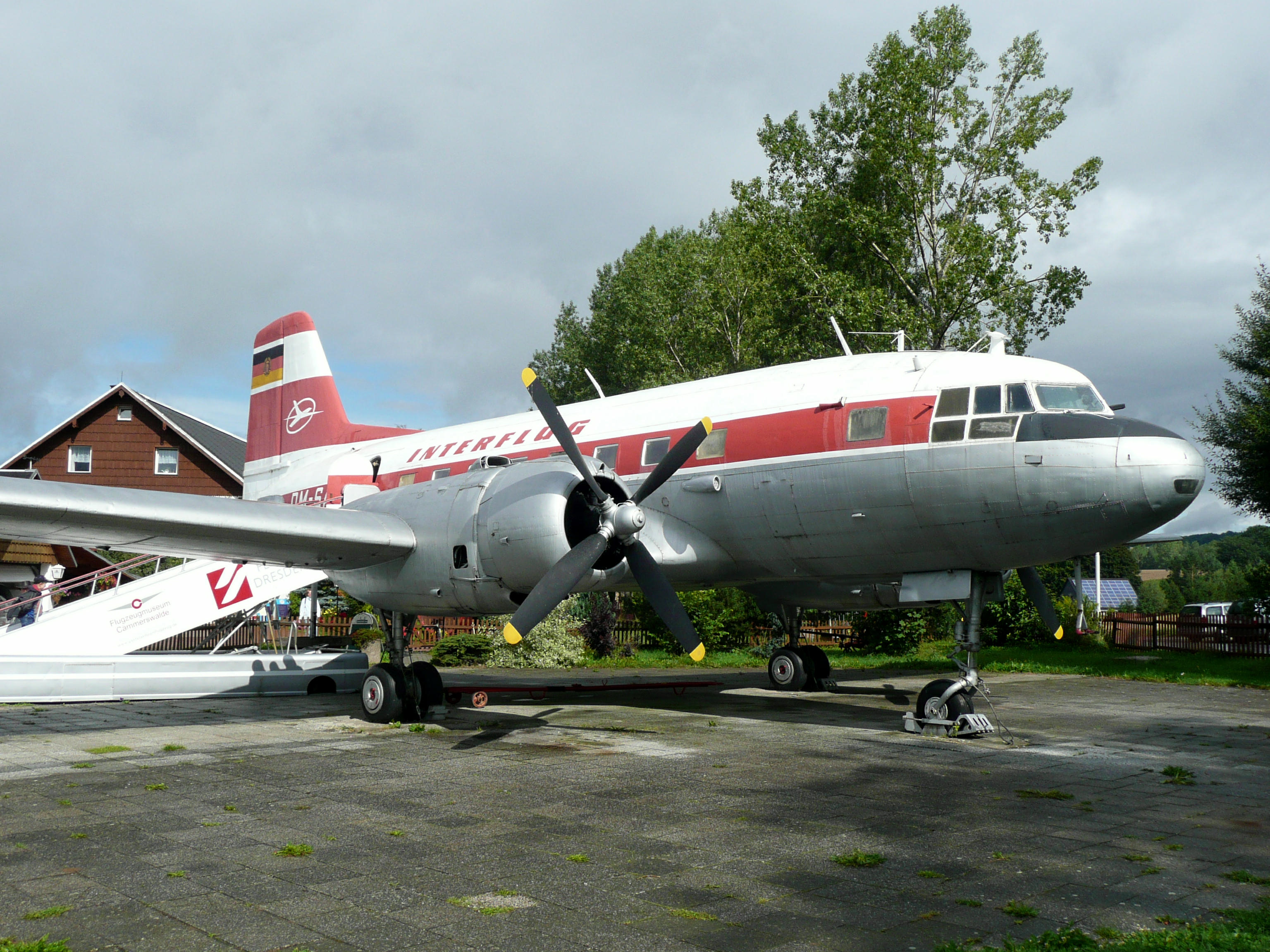 This image shows a Ilyushin Il-14 (DM-SAB) of the former GDR state airline Interflug. The airplane was built 1957 and used as airliner until 1968.